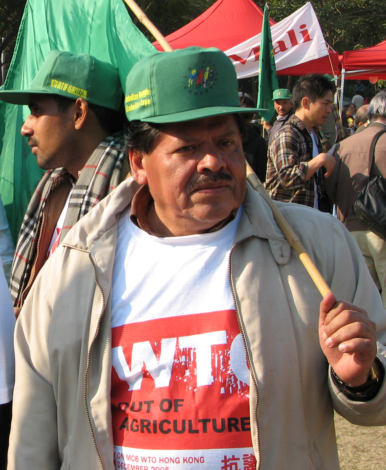 Rafael Alegria, one of the international leader of La Via campesina